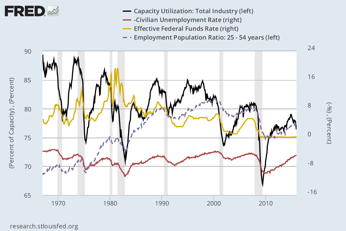 Capacity utilisation, employment rate, unemployment rate (upside down, scale on the right side), based on source.